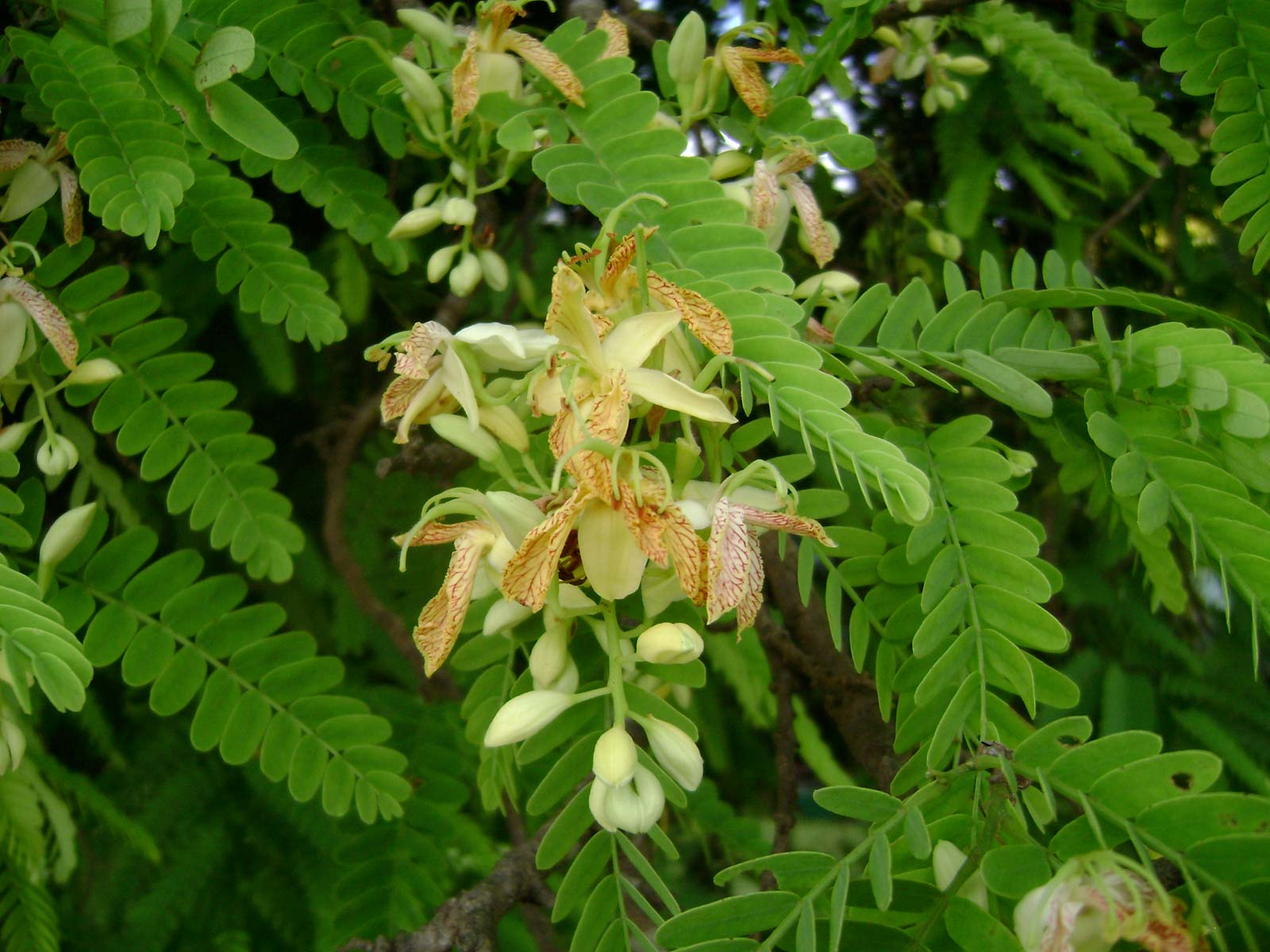 Tamarindus indica, flowers & leaves; in Tonga